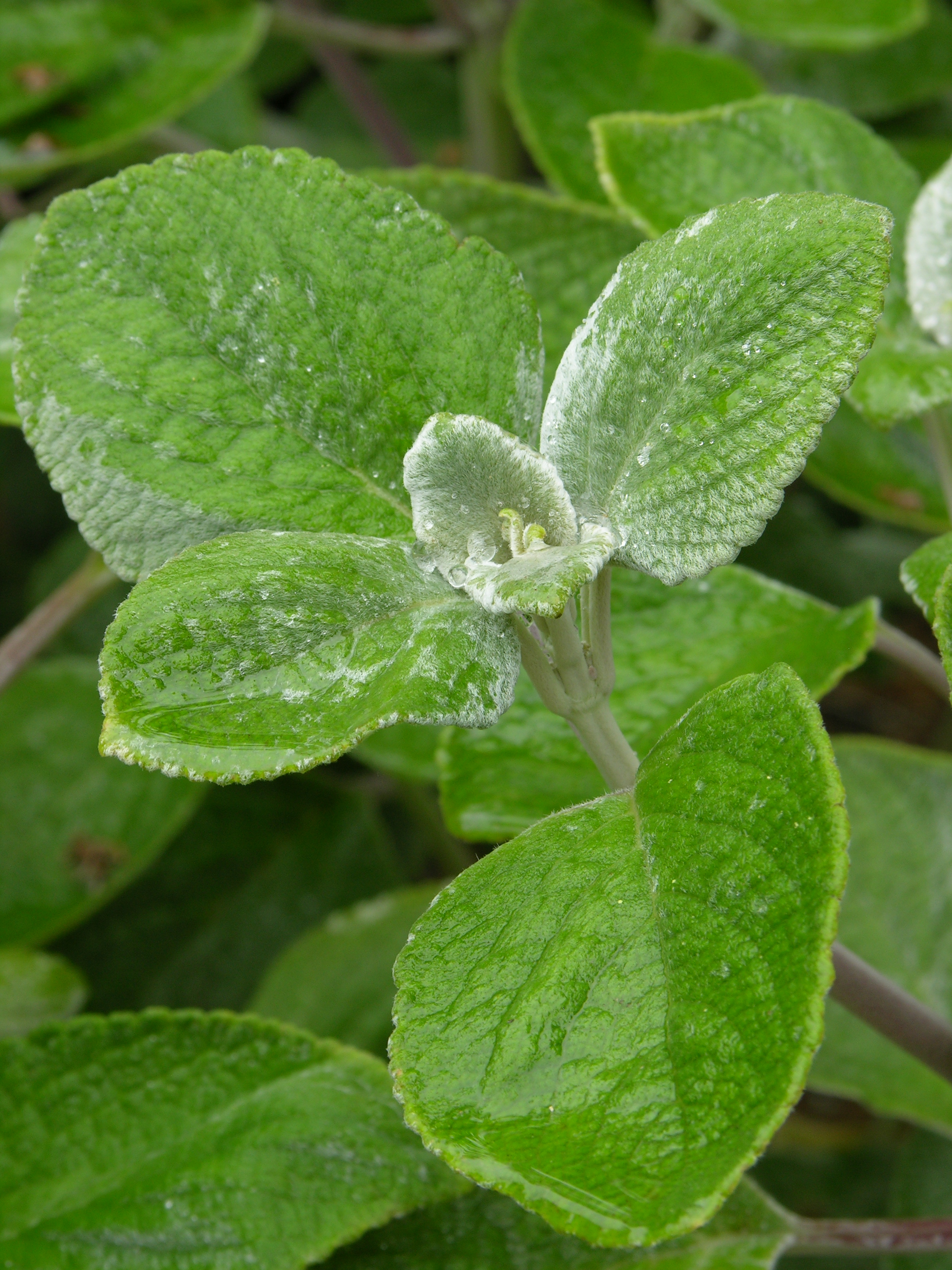 Photograph of the leaves of the Silver spurflower (Plectranthus argentatus). Photo taken at the Tyler Arboretum where it was identified.